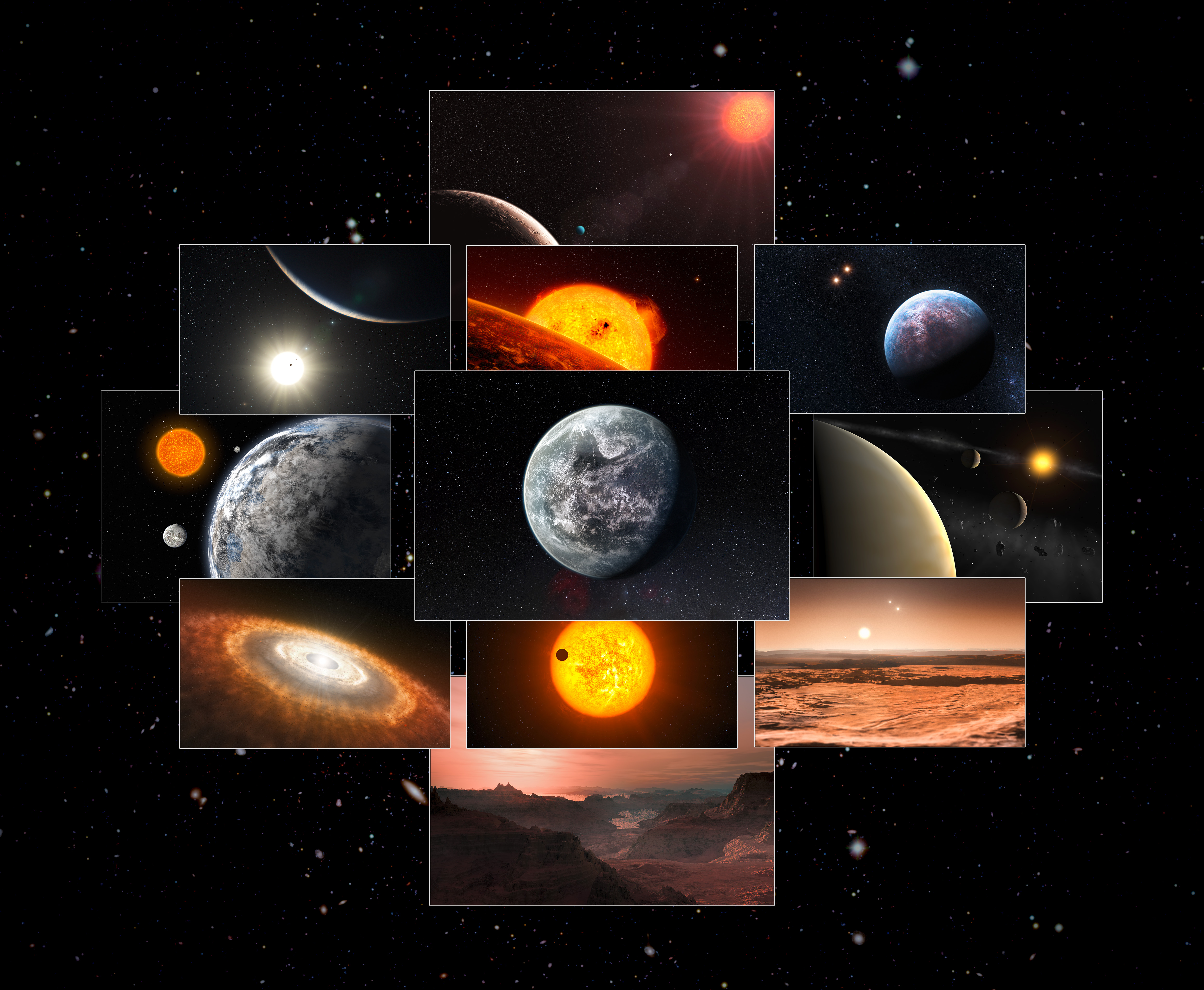 On 16–17 September 2013 a scientific meeting in Geneva entitled 10 Years of Science with HARPS celebrated a decade of full operation of the High-Accuracy Radial Velocity Planet Searcher (HARPS) — the world’s foremost planet hunter. The meeting paid tribute to the extraordinary scientific results that HARPS has provided and the unrivalled window it provides onto one of the most exciting areas of current astronomical science — the search for and characterisation of planets around other stars. This collage features artist’s impressions of many of the exoplanetary systems found and studied using HARPS.